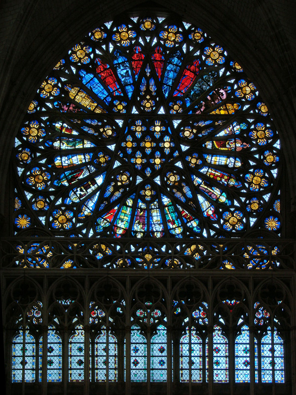 Church of Saint Ouen, Rouen, Seine-Maritime, Normandie, France. North transept rose: the "Hierarchy" by Colin de Berneval.